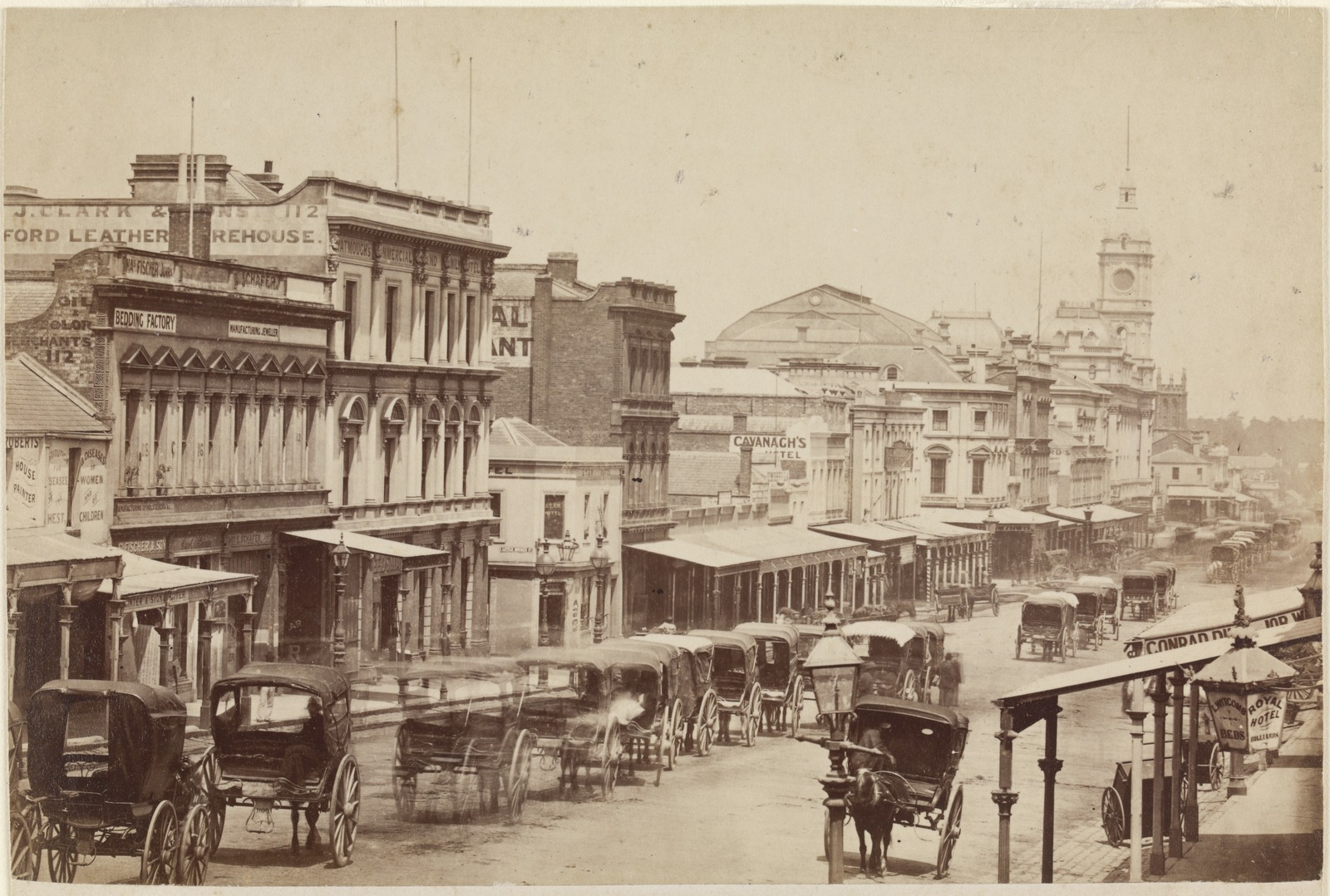 Albumen photograph of Swanston Street ca. 1873, 13.1 x 17.0 cm, Charles Nettleton (1826-1902) State Library Victoria H88.21/9